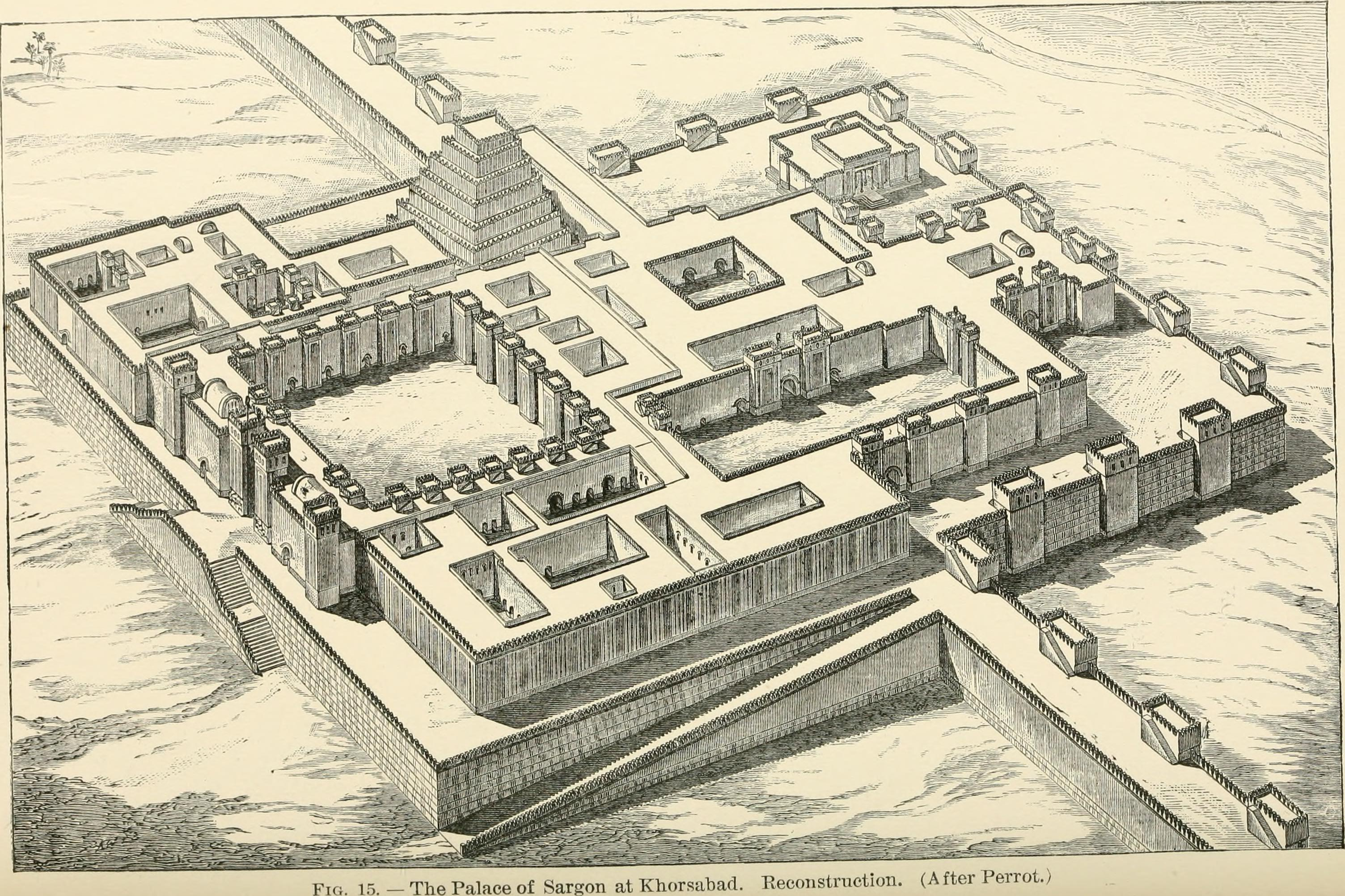 Identifier: historyofallnati02wrig Title: A history of all nations from the earliest times; being a universal historical library Year: 1905 (1900s) Authors: Wright, John Henry, 1852-1908 Subjects: World history Publisher: [Philadelphia, New York : Lea Brothers & company Text Appearing Before Image: Fig. 14. — Temple of Ilaldis in Muzazir. (After I5otta and Fiandin.) 80 THE SÄBGONIDÄE. Text Appearing After Image: SAJRGOXS PALACE AT KHORSABAD. 81 important of Assyrian architectural remains (Figs. 15, 16). Ac-cording to the inscription on the bnll-spliinxes at the gate, the cir-cumference of the city walls was 3.( iter (a iier is 7200 spans), 1stadium (720 spans), 8 rods (the rod is 6 spans), and 2 spans